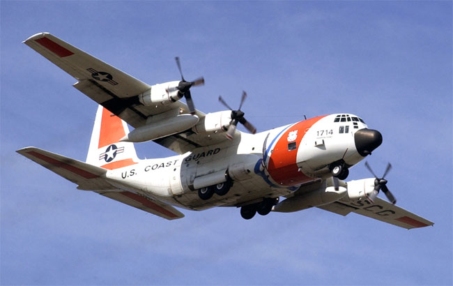 A United States Coast Guard C-130 Hercules near Oahu, public domain photo 2004-03-14 20:56 RadicalBender 650×410×8 (39801 bytes) A United States Coast Guard HC-130 Hercules near Oahu, public domain photo from navy.mil